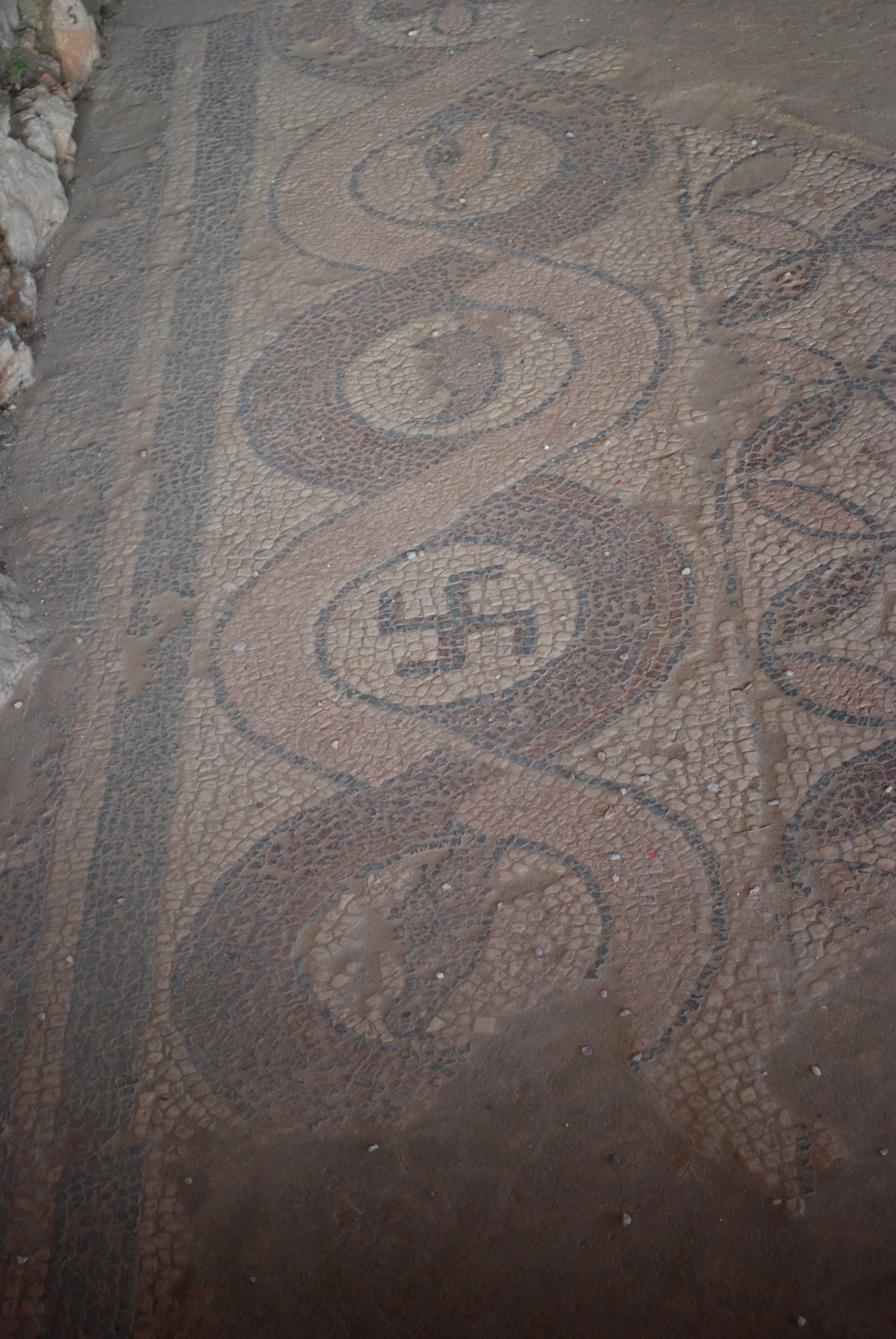 Svastika in mosaic on Plaošnik, Ohrid, Macedonia